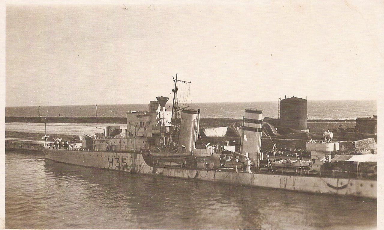 H.M.S. Hunter (H35) in Malta for repairs after mining off of Spain in May 1937